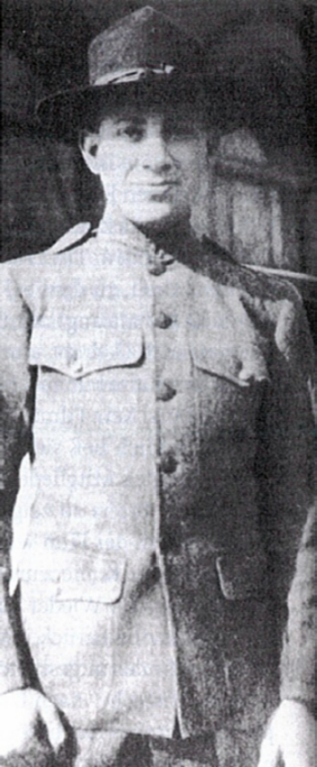 Gummo Marx, leaving the Marx Brothers for going to the US-Army